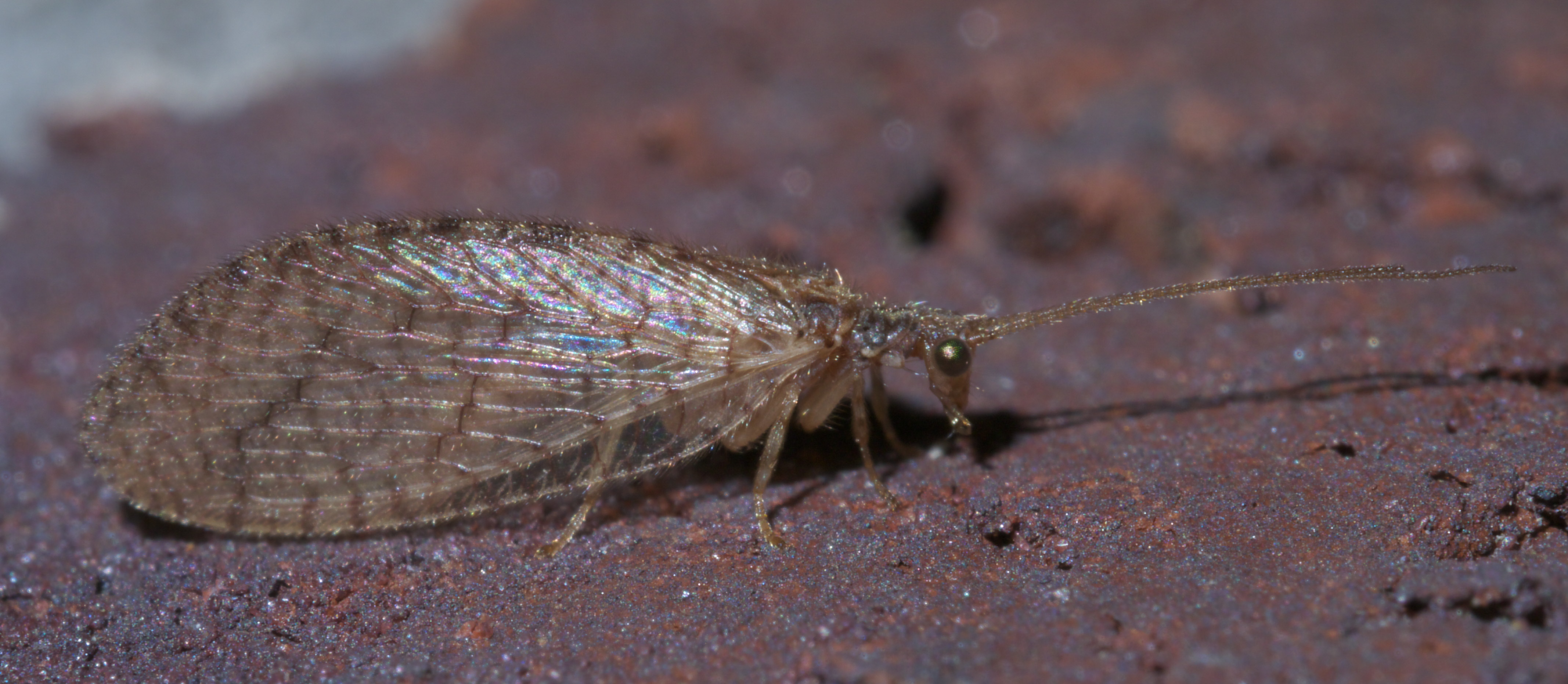 Micromus posticus, Family: Brown Lacewings, ID Confidence: 80